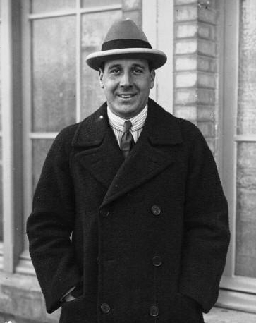 Argentine engineer and inventor Raúl Pateras Pescara (1890-1966).